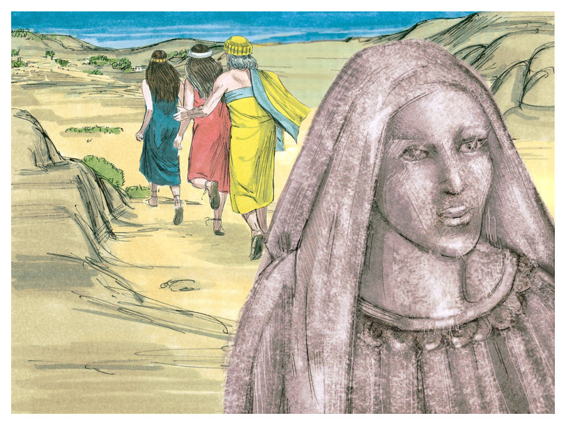 Biblical illustration of Book of Genesis Chapter 19